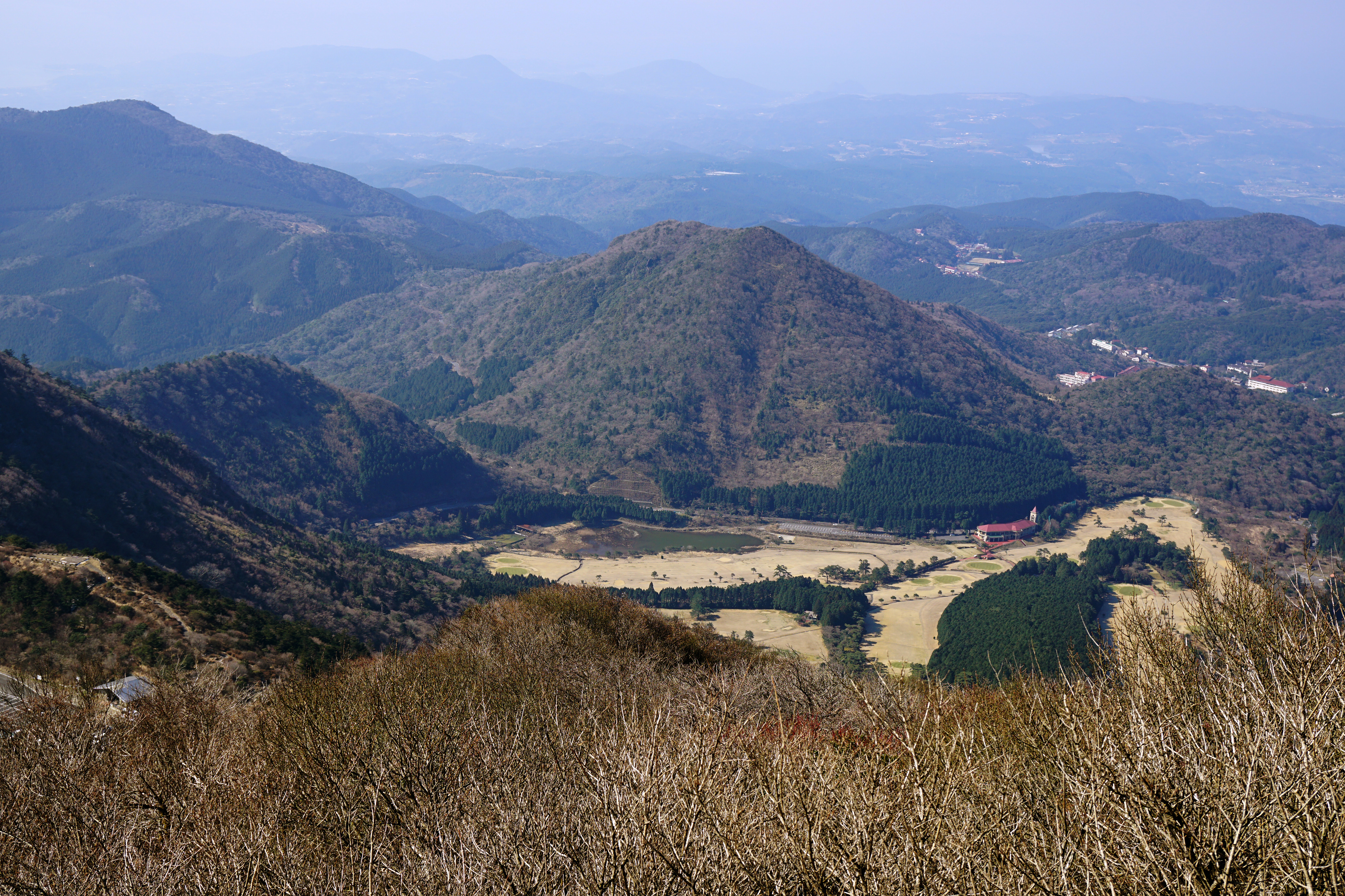 Mount Ya-dake is part of Unzen volcanic complex at Unzen City, Nagasaki prefecture, Japan.